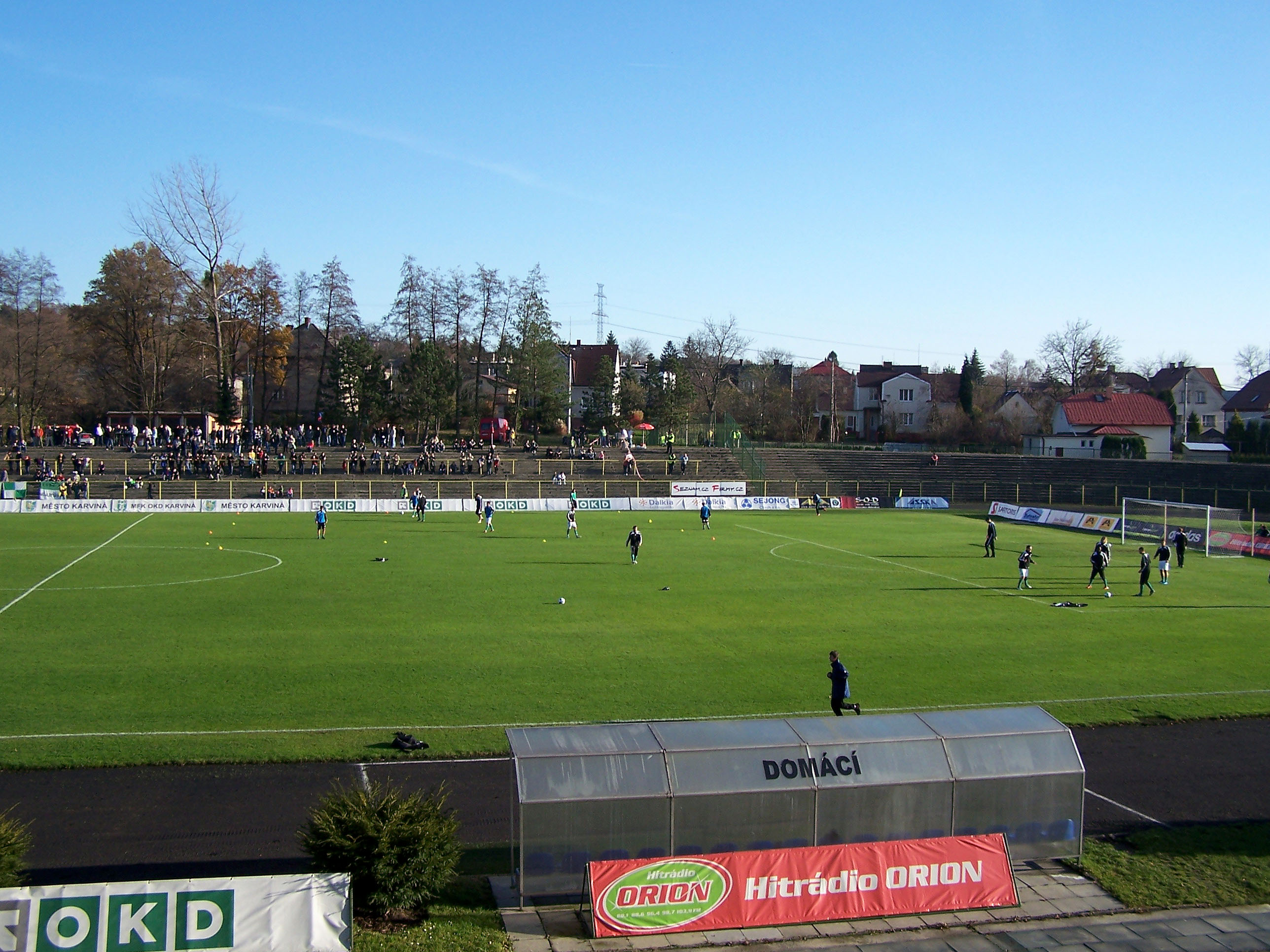 MFK Karviná players practicing before the MFK Karviná - SK Slavia Praha ČMFS Cup match in Karviná